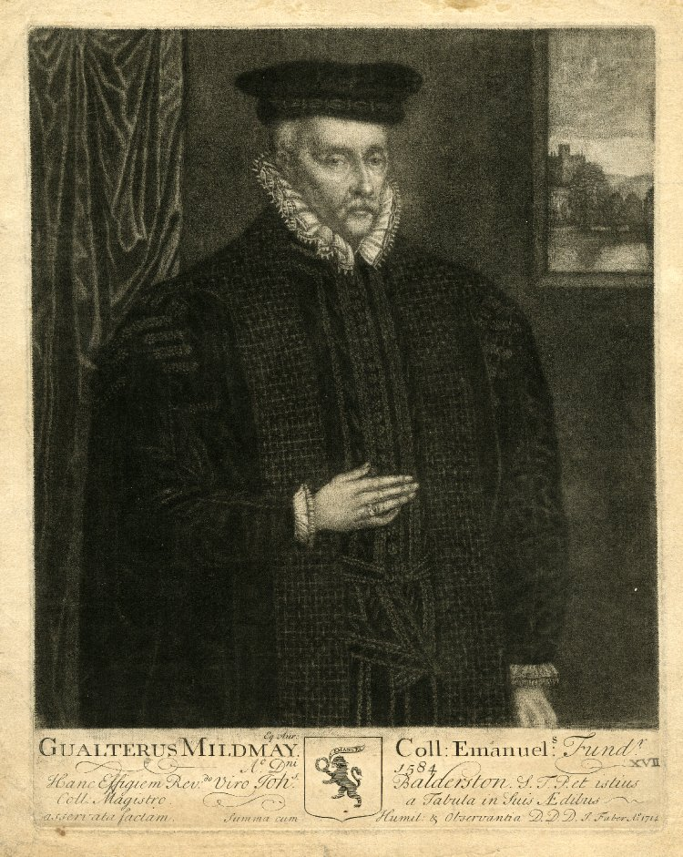 "Gualterus Mildmay," portrait of Sir Walter Mildmay (1523-1589), the English statesman who founded Emmanuel College, Cambridge. Mezzotint by John Faber the Elder; published by Thomas Taylor in 1714. Courtesy of the British Museum, London.